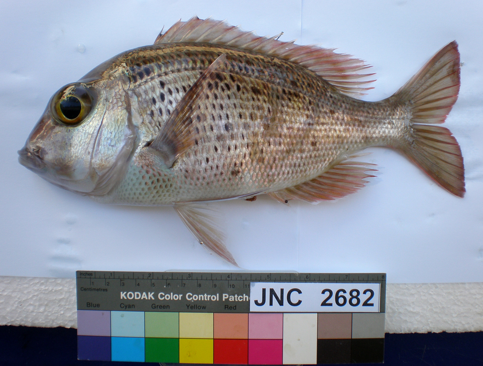 Gymnocranius euanus (Günther, 1879) from off New Caledonia. Parasitological number MNHN JNC2682. Collected off Récif Kué, off Nouméa, New Caledonia, 7 October 2008. Fork Length 265mm, Weight 520g.